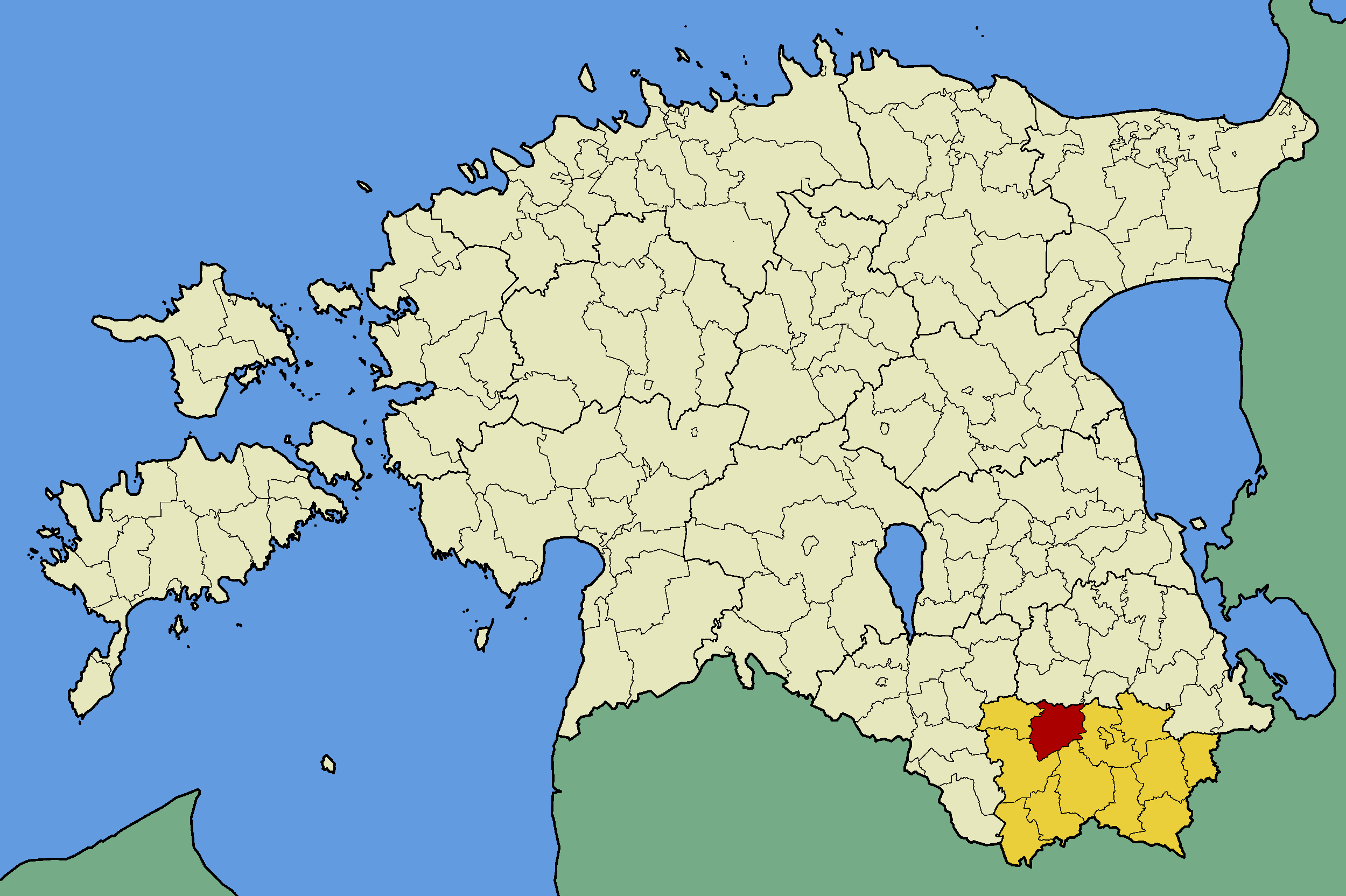 Map of Estonia with borders of municipalities (parishes). Võru county and Sõmerpalu municipality emphasized.